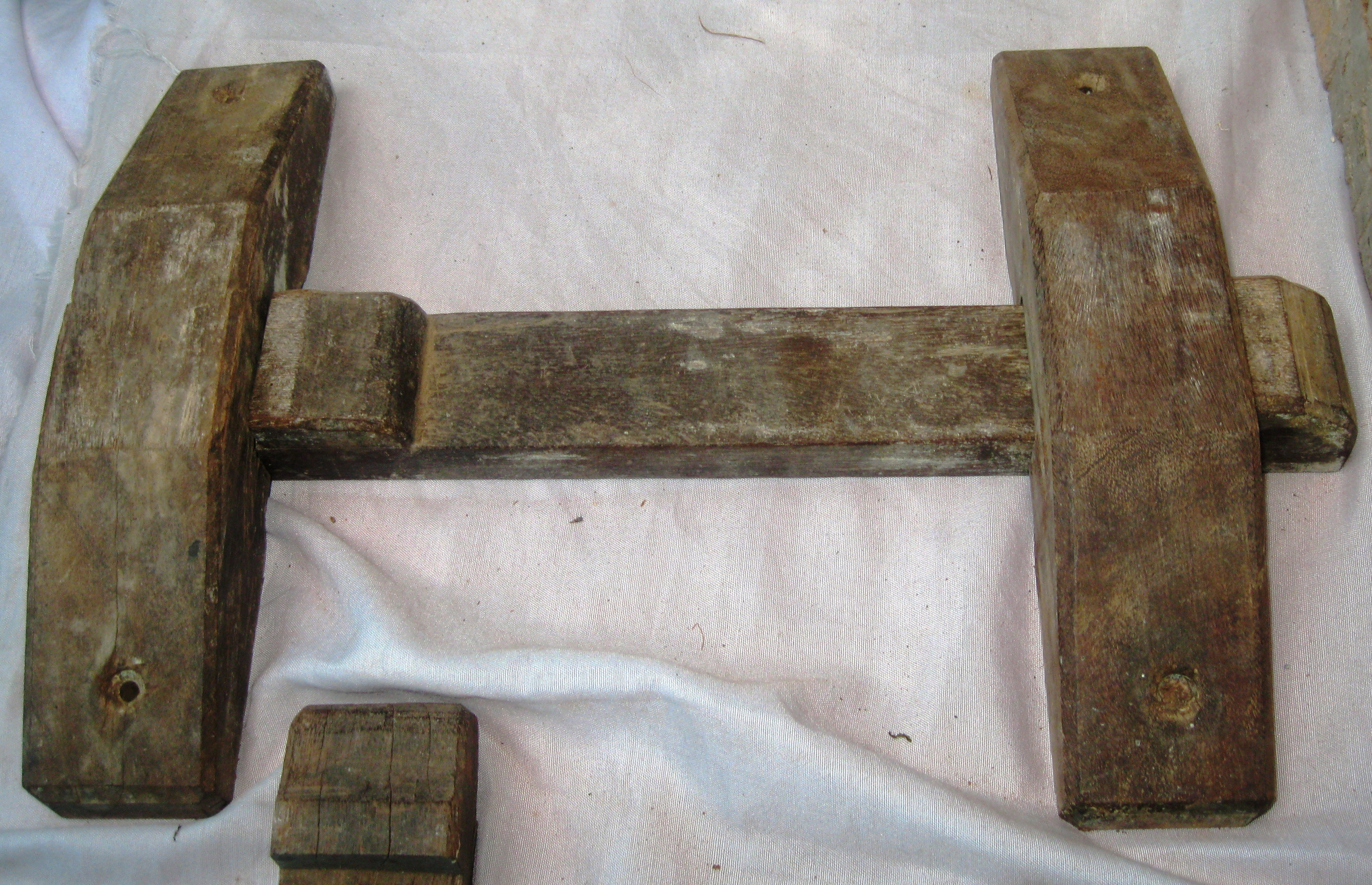 to close the door